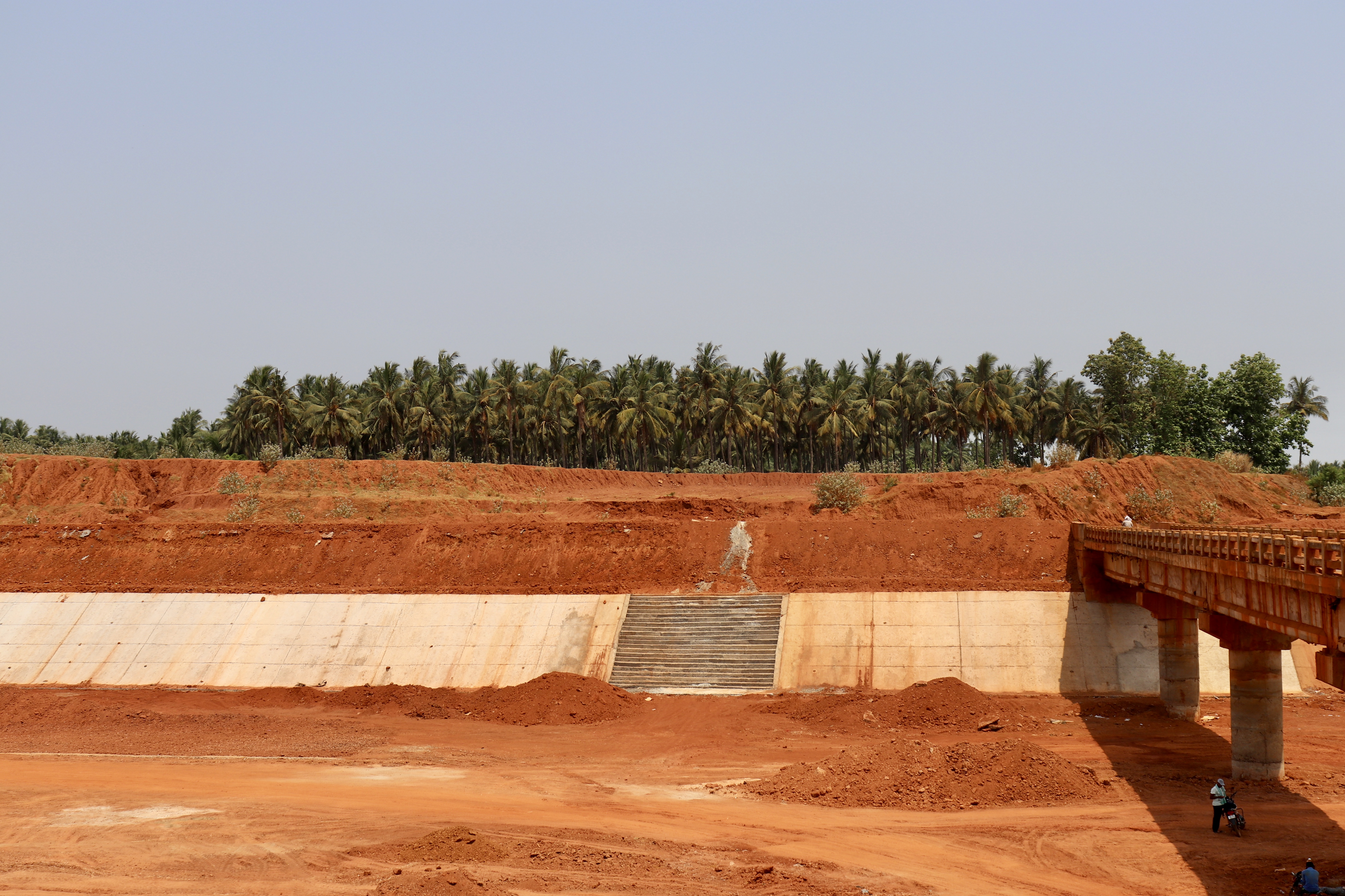 Polavaram canal under construction near Eluru